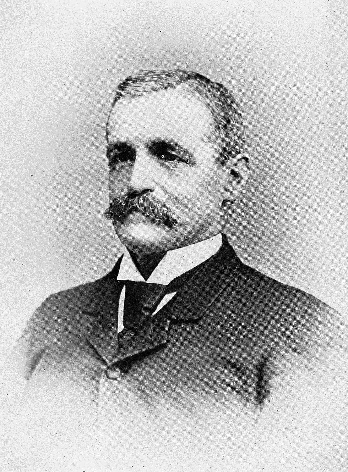 Scan from book 'The Catalpa Expedition'